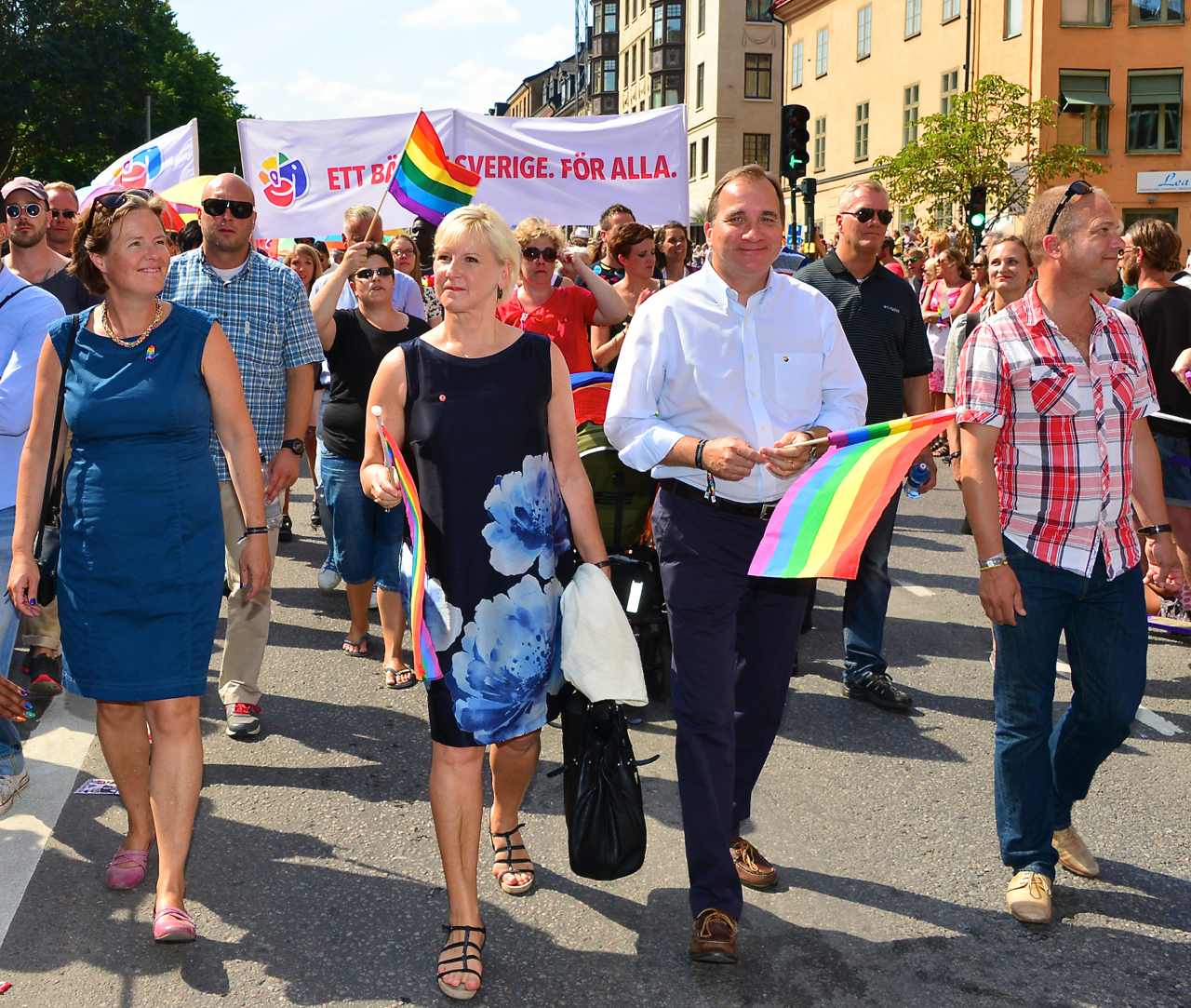 Social Democrats in the final Pride Parade during Stockholm Pride in 2014. Carin Jämtin, Margot Wallström, Stefan Löfven (party leader).